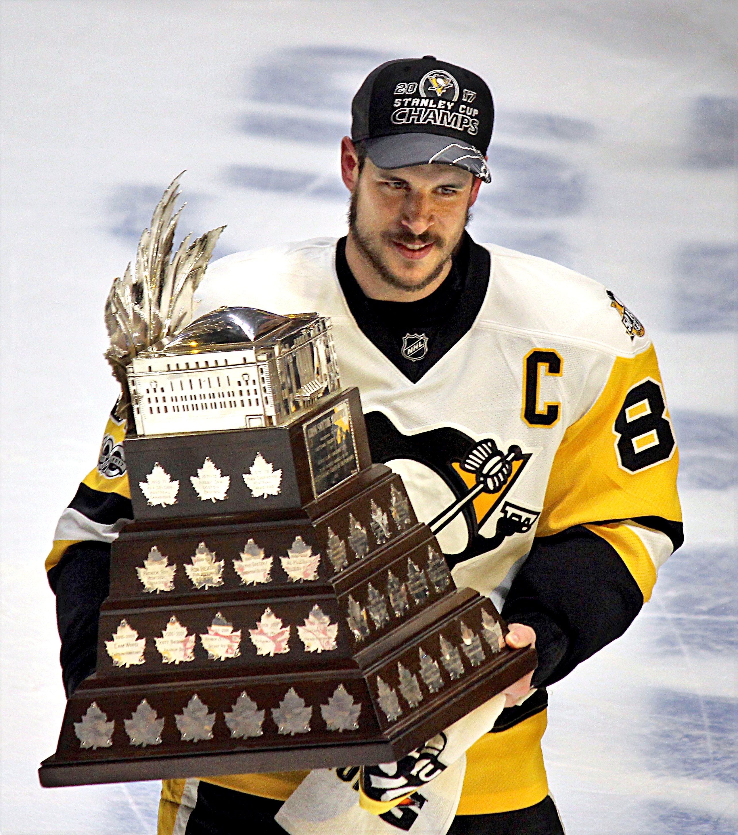 Pittsburgh Penguins captain Sidney Crosby won his second straight Conn Smythe Trophy following the Penguins victory over the Predators, June 11, 2017, at Bridgestone Arena in Nashville, TN.